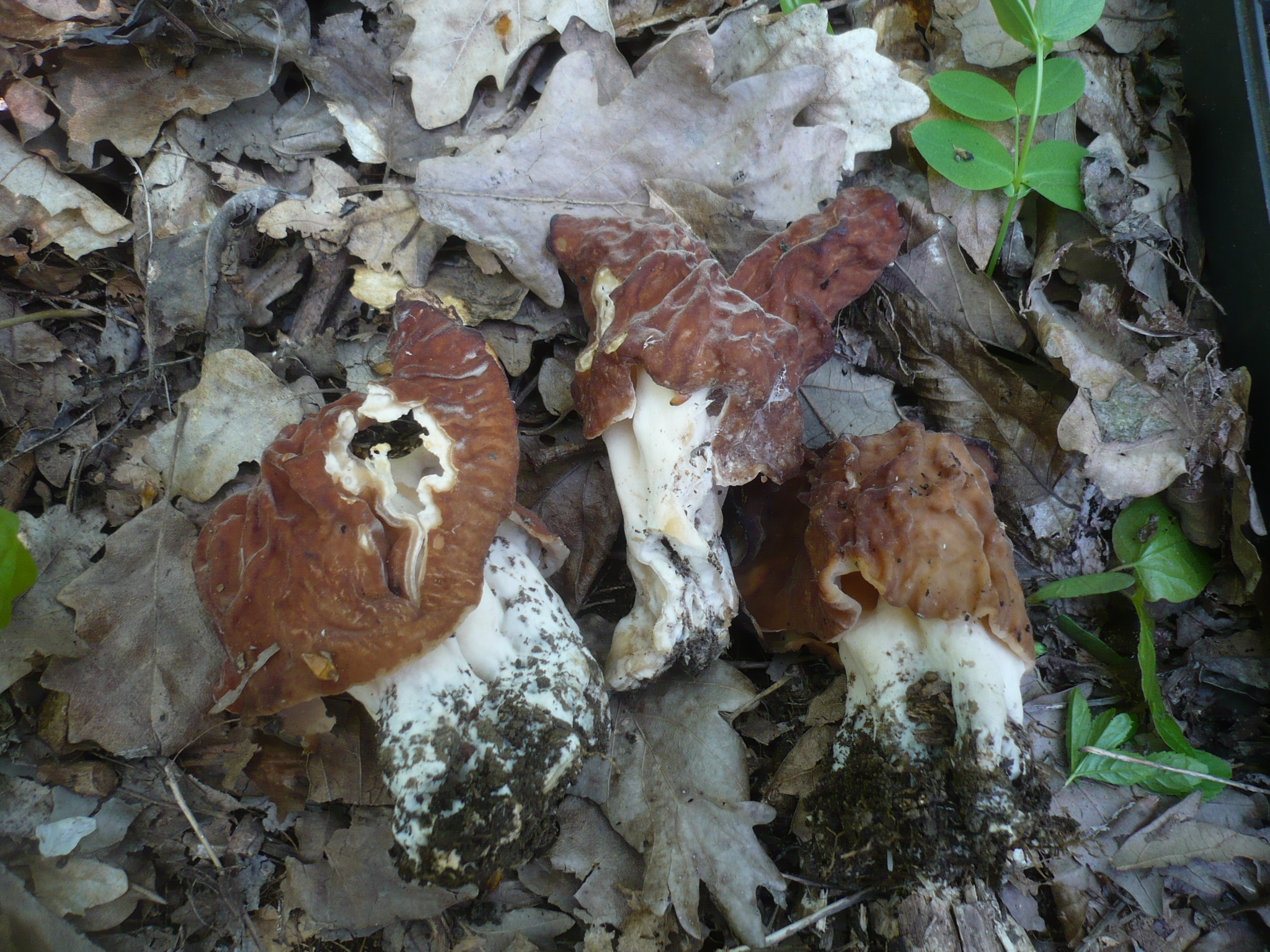 Gyromitra fastigiata (Krombh.) Rehm Image location: Gugelberg, Arbesthal, Bezirk Bruck an der Leitha, Lower Austria, Austria Recognized by sight: growing with hornbeam and ash For more information about this, see the observation page at Mushroom Observer.